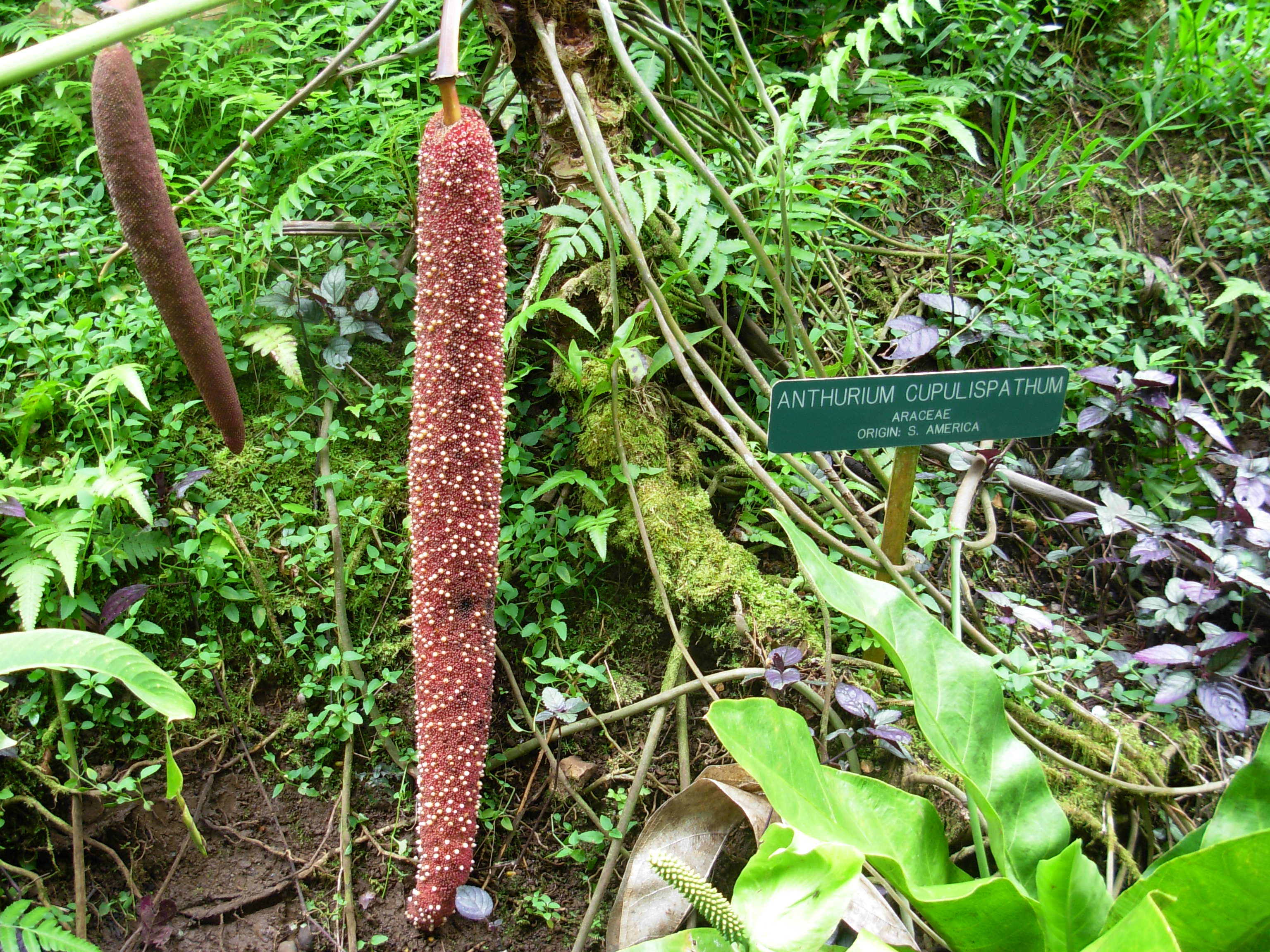 Anthurium cupulispathum Spadix Anthurium Origin: South America Kingdom: Plantae Division: Magnoliophyta Class: Liliopsida Order: Alismatales Family: Araceae Genus: Anthurium 1041308 518